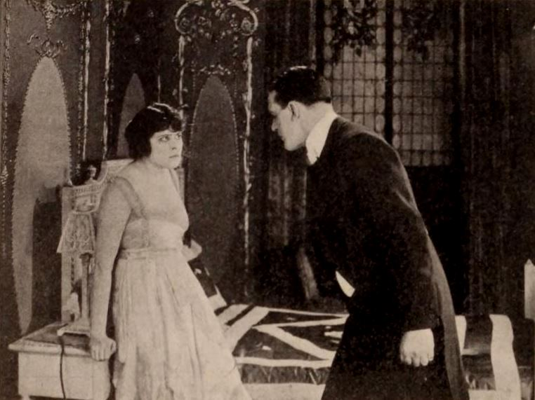 Still from the American drama film The Lure of Ambition (1919) with Theda Bara and an unidentified actor, on page 70 of the January 17, 1920 Exhibitors Herald.